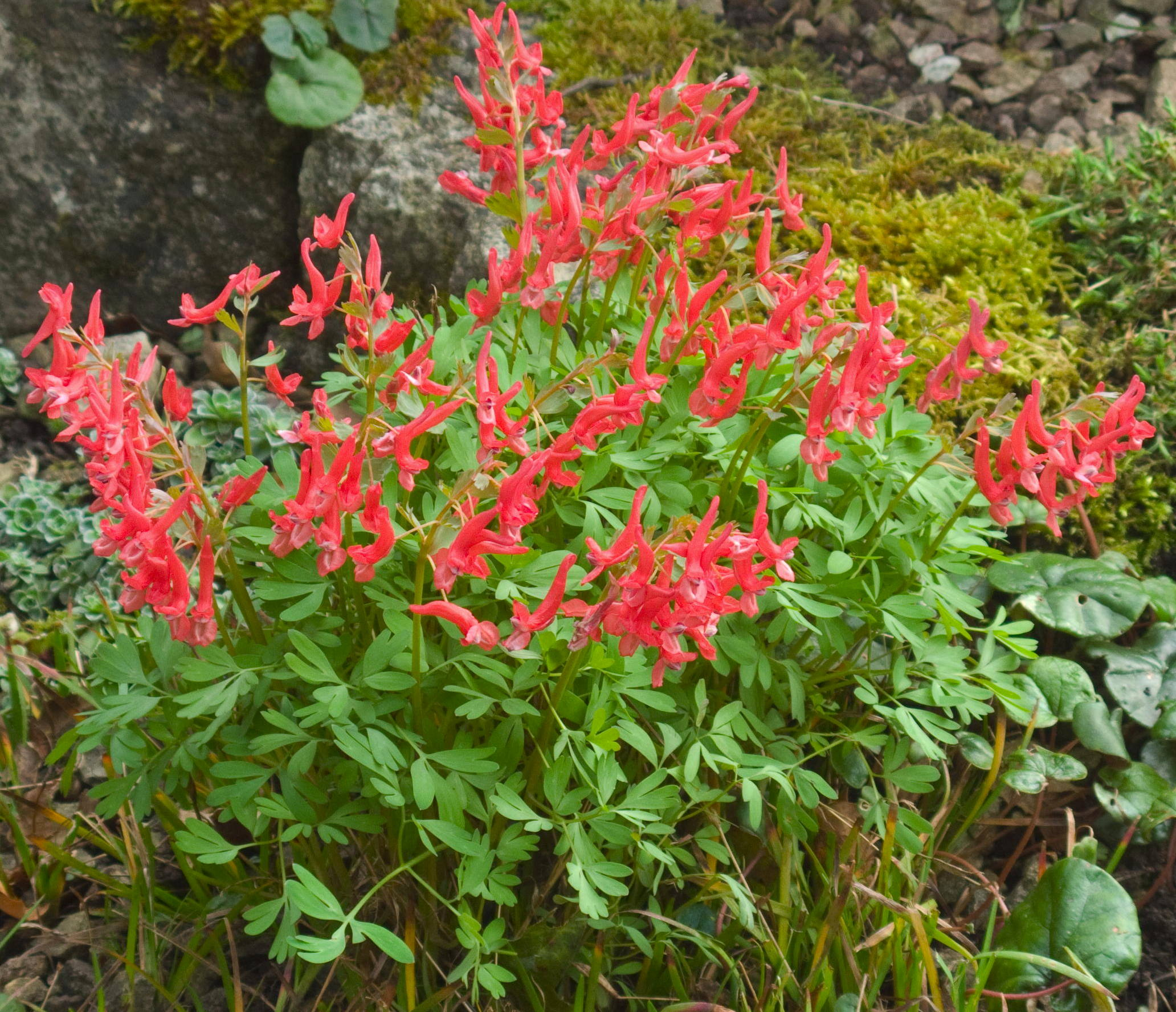 Corydalis solida 'George Baker' in cultivation in a garden in the English Midlands